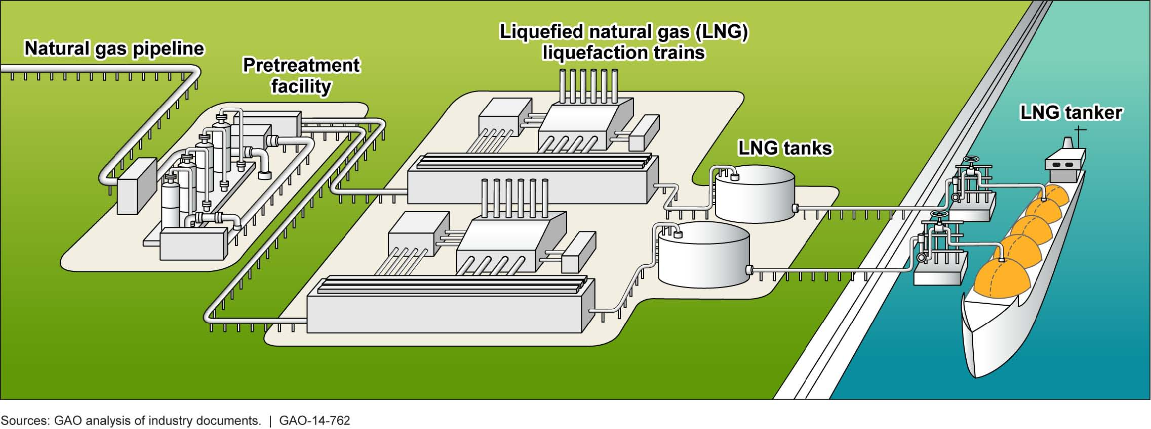 This image is excerpted from a U.S. GAO report: NATURAL GAS: Federal Approval Process for Liquefied Natural Gas Exports